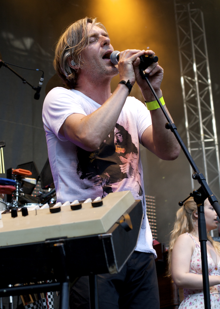 Leadsinger of the band Gnags, Peter A.G. Nielsen.